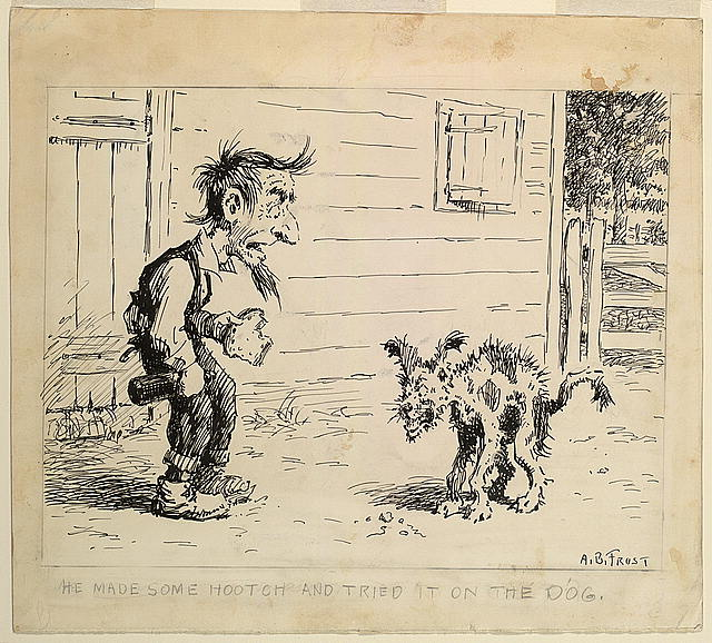 Arthur Burdett Frost (1851 - 1928), "He Made Some hootch and tried it on the dog", 1921. India Ink over pencil with scraping out on board. "Hootch" was slang for alcoholic beverages; this is a reference to the manufacture of home made liquor during Prohibition in the USA.